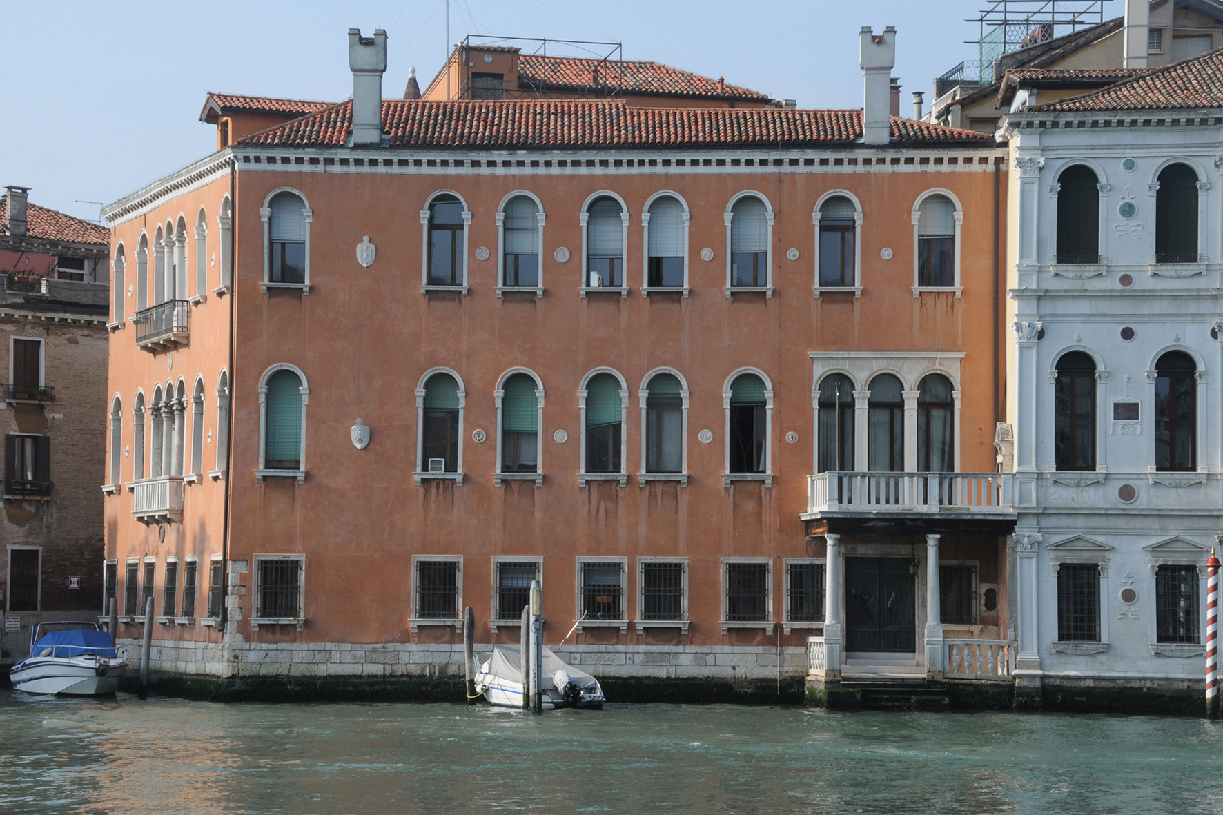 Ca' Cappello-Layard overlooking the Grand Canal